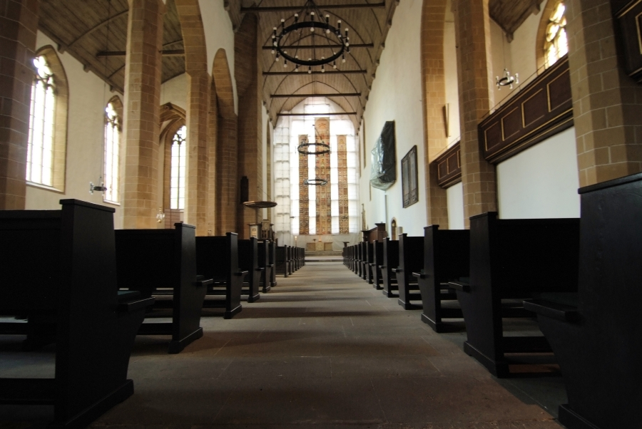 Augustinerkloster in Erfurt Mittelschiff der Augustinerkirche